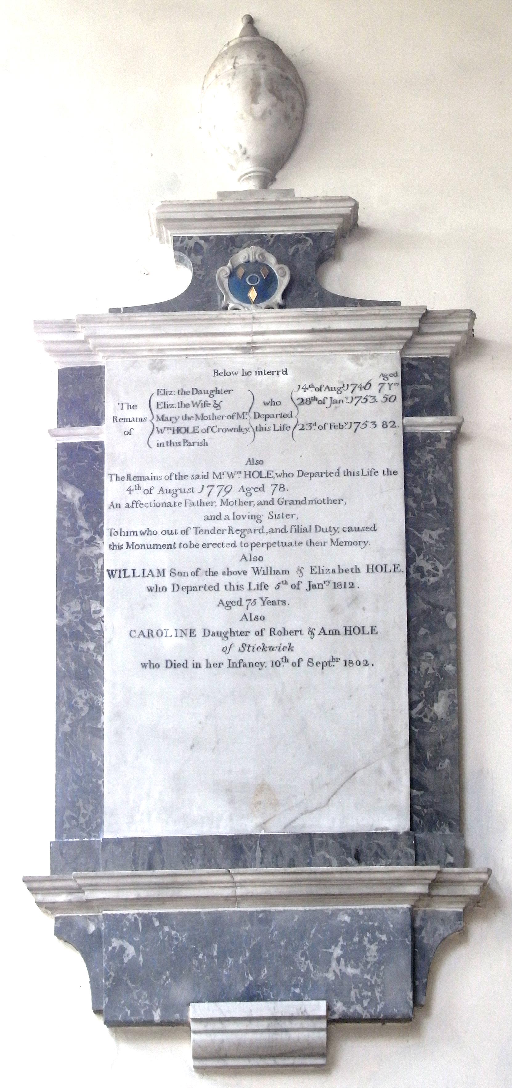 Monument to William Hole (1701-1779) of Crownley in the parish of Bovey Tracey, Devon. Erected by his son Robert Hole (1742-1822) of Stickwick, whose son William Hole (1800-1859) in 1825 purchased Parke, in the parish of Bovey Tracey, and rebuilt it as the surviving mansion house, today the headquarters of the Dartmoor National Park Authority. Displaying arms of Hole: Azure, an annulet argent between three lozenges or